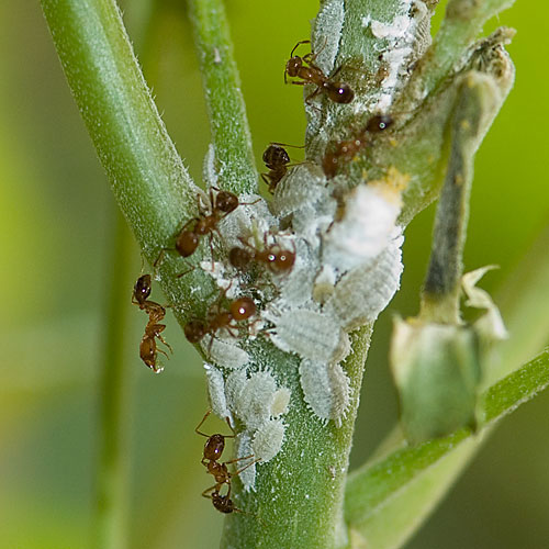 These tiny red fire ants were found milking mealy bugs in our garden in Bangalore City, India